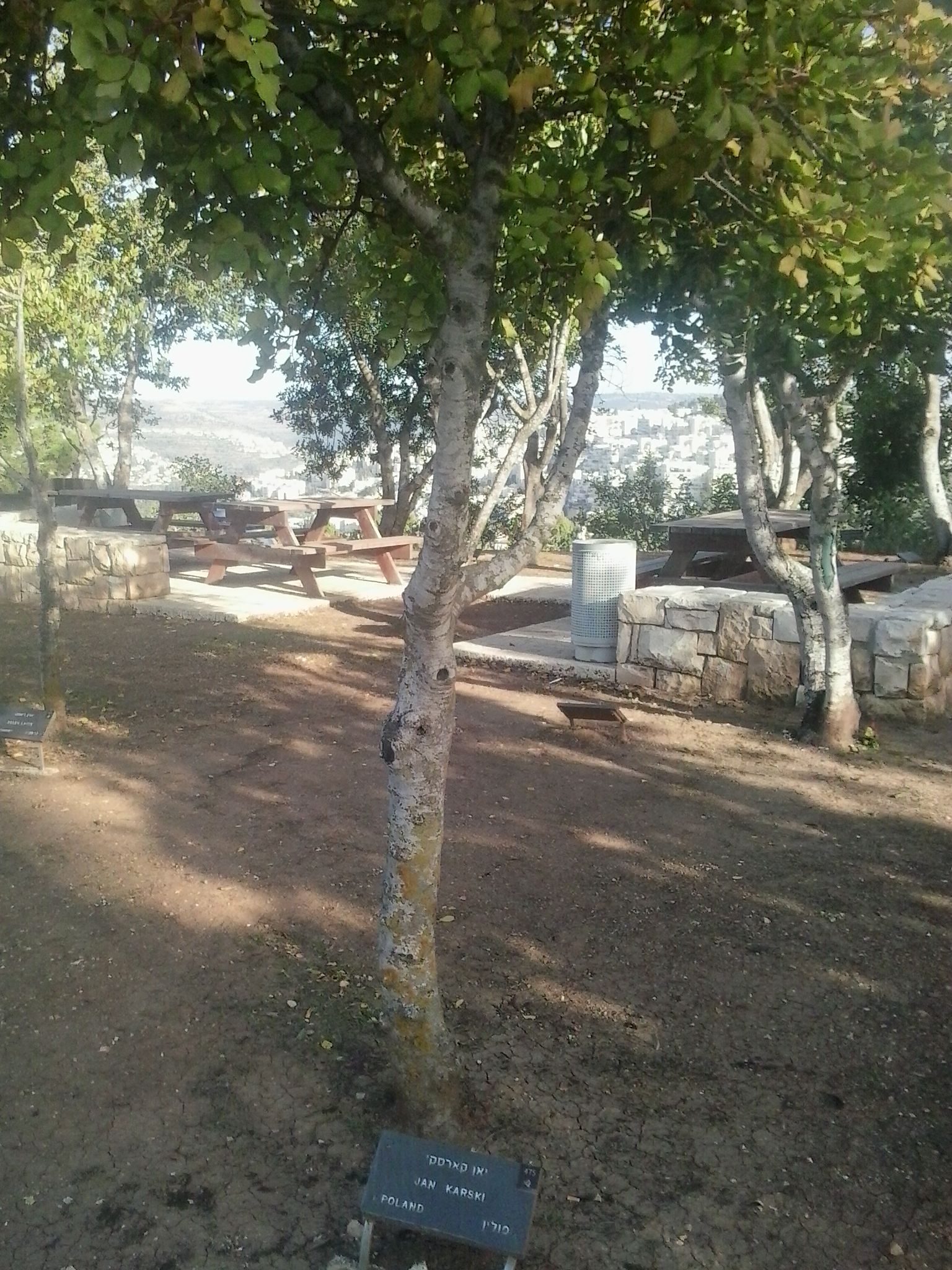 The Tree planted at Yad Vashem honoring the Righteous Among the Nations Jan Karski